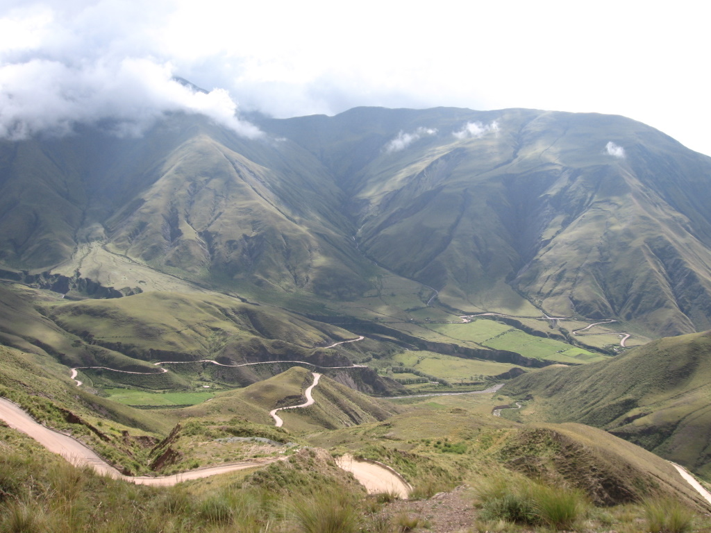 Cuesta del Obispo, Salta Province (Argentina).